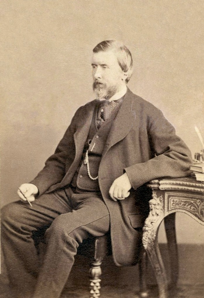 John Henry Pepper (1821-1900) John Henry Pepper was an illusionist, publisher and teacher who used the title "Professor." Date:1870 circa 5 yearsOriginal Format:Carte de VisiteItem#:MES24753Photographer:Henry Maull (London)